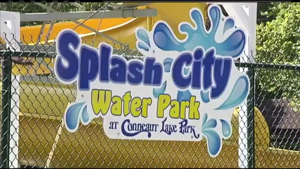 wtaerpark sign